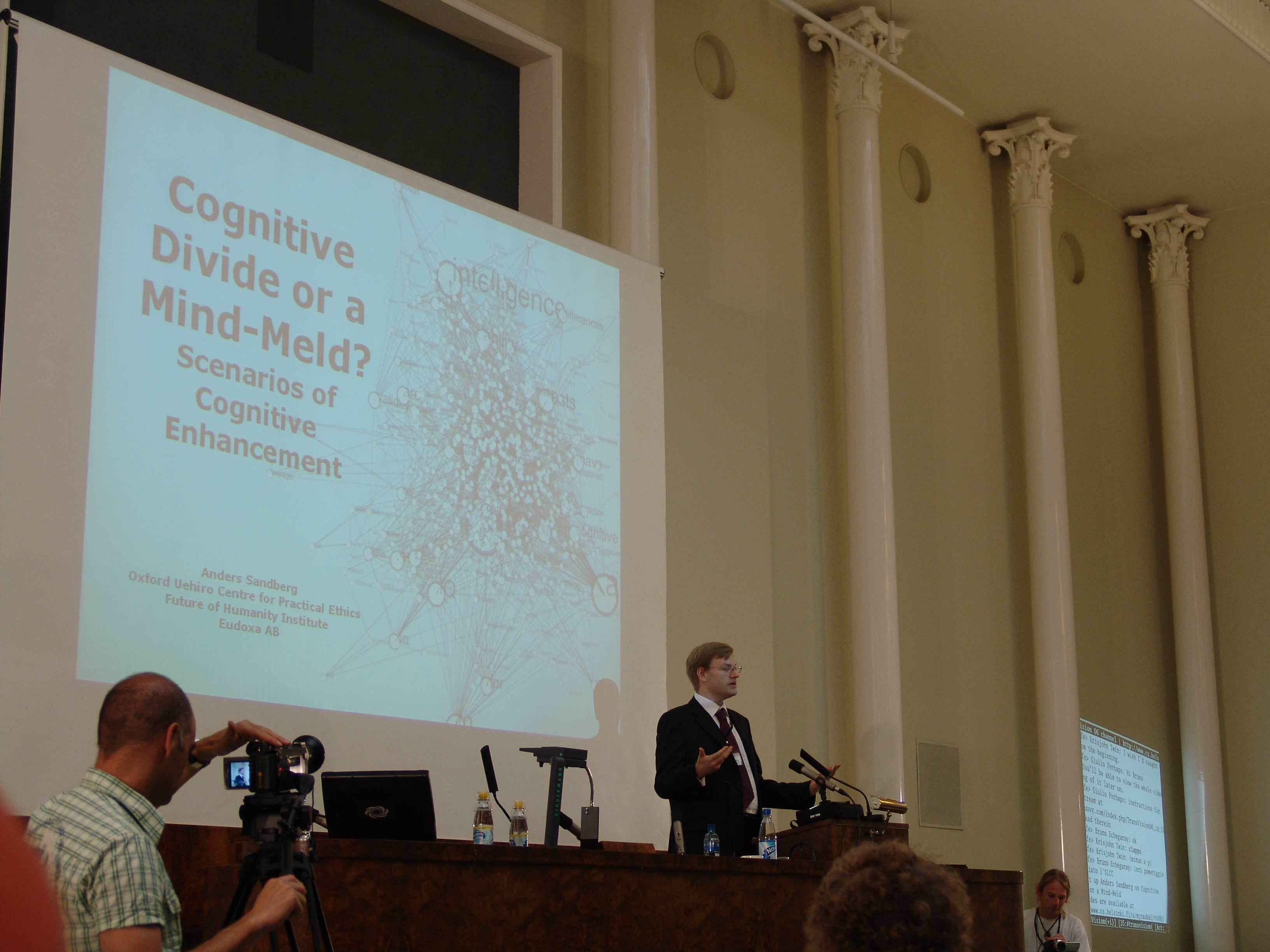 Anders Sandberg at University of Helsinki: "Cognitive Divide or a Mind-Meld? : Scenarios of Cognitive Enhancement" event.